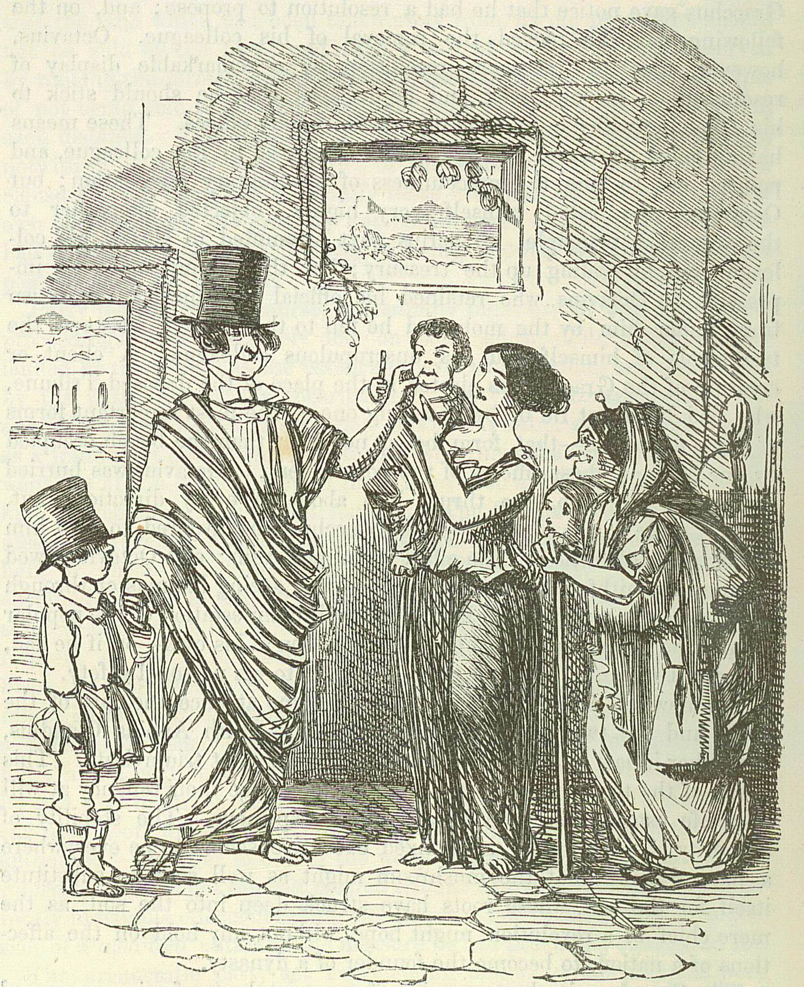 Image by John Leech, from: The Comic History of Rome by Gilbert Abbott A Beckett. Bradbury, Evans & Co, London, 1850s Tib. Gracchus canvassing